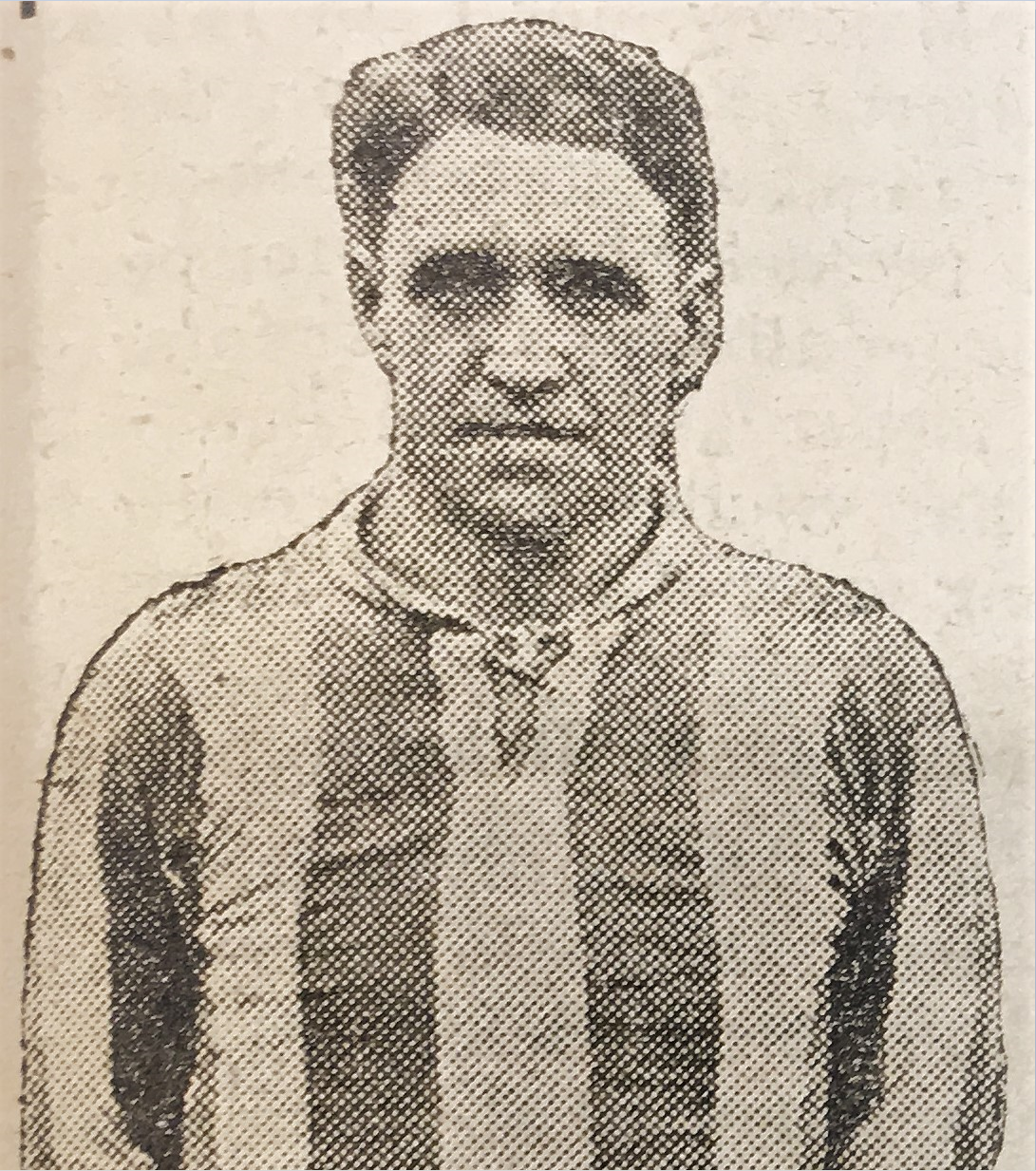 Portrait of the football player Vilhelm Nielsen of Kjøbenhavns BK — Top goal scorer of the 1927–28 KBUs Mesterskabsrække.